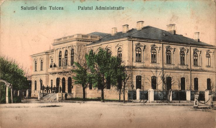 The former Administrative Palace in Tulcea, illustrated in an early 20th century picture. The historical building was built between 1863-1865 and today it houses the Art Museum in Tulcea.